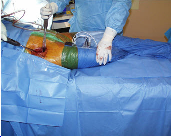 Shift 4 like position